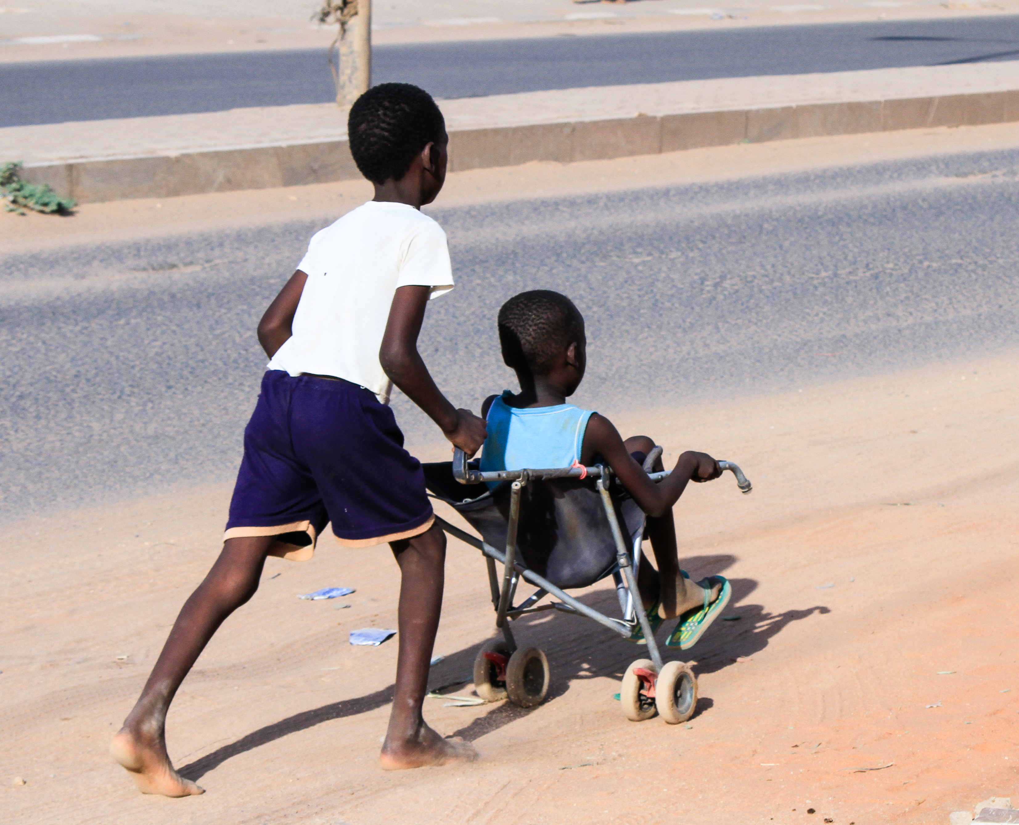 A child pulls his brother on a shopping. This is an image with the theme "Africa on the Move or Transport" from: Sudan